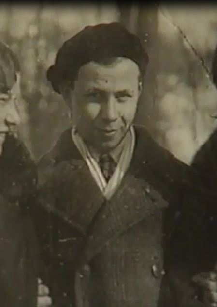 Polish poet, satirist and literary critic.